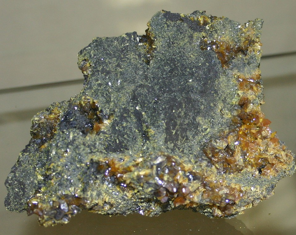 Orpiment